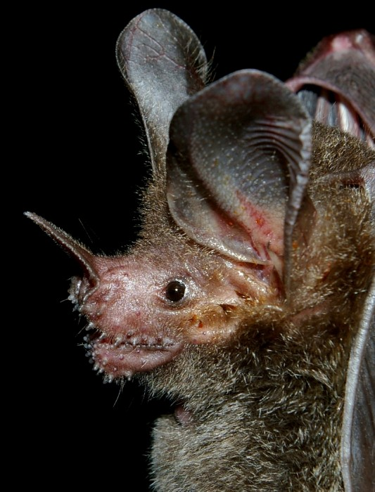 Fringe-lipped bat (Trachops cirrhosus). Photo taken in La Selva, Costa Rica.